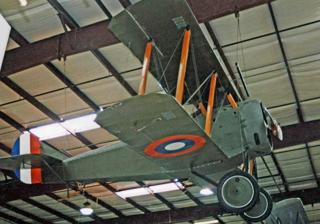 Standard E-1 advanced training biplane of the USAAC 1919 built displayed at the Virginia Aviation Museum at Richmond VA in period colours and markings.